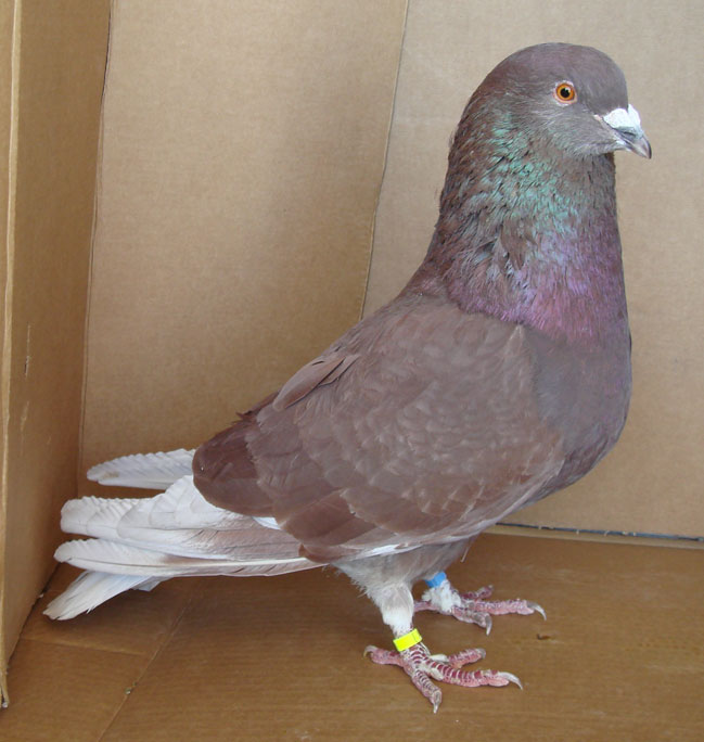 pigeon